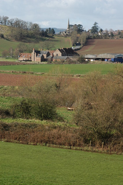 Flanesford Priory Flanesford Priory and part of the village of Goodrich viewed from near Walford Saw Mills. The embankment of the former Ross and Monmouth Railway can be seen in the foreground with the River Wye just beyond. The Ross and Monmouth and the Wye Valley Railway connected Ross-on-Wye with Chepstow and last carried passengers in 1959.